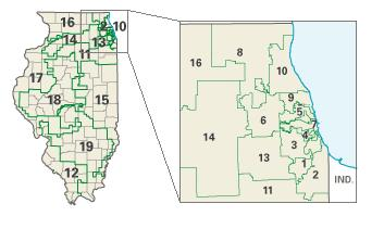 Image adapted from US fed gov't source Category:Congressional districts of Illinois